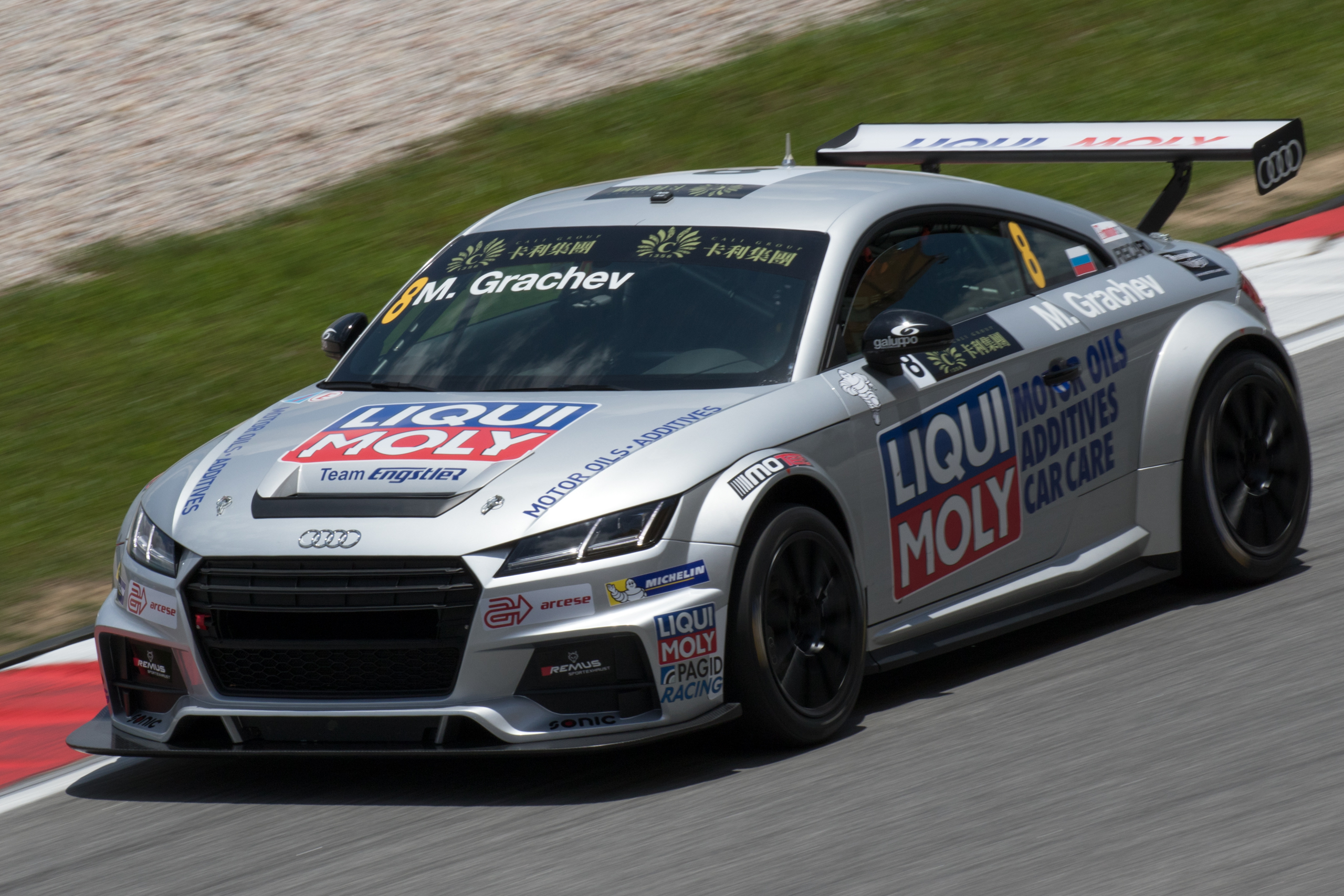 TCR International Series 2015 Rd.1 Malaysia: Mikhail Grachev (Engstler)